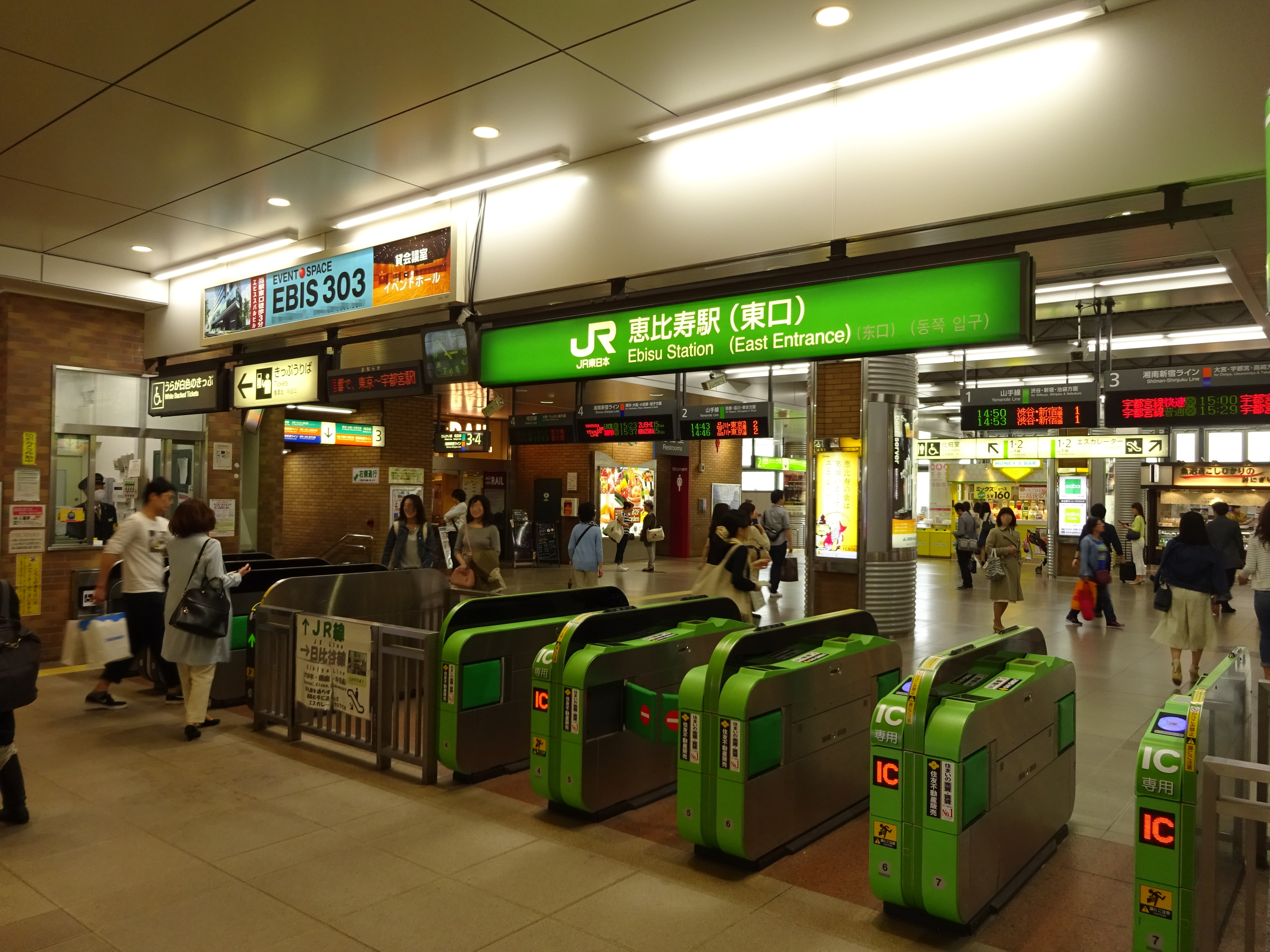 Ticket gate of Ebisu Station (Tokyo)(East Gate)